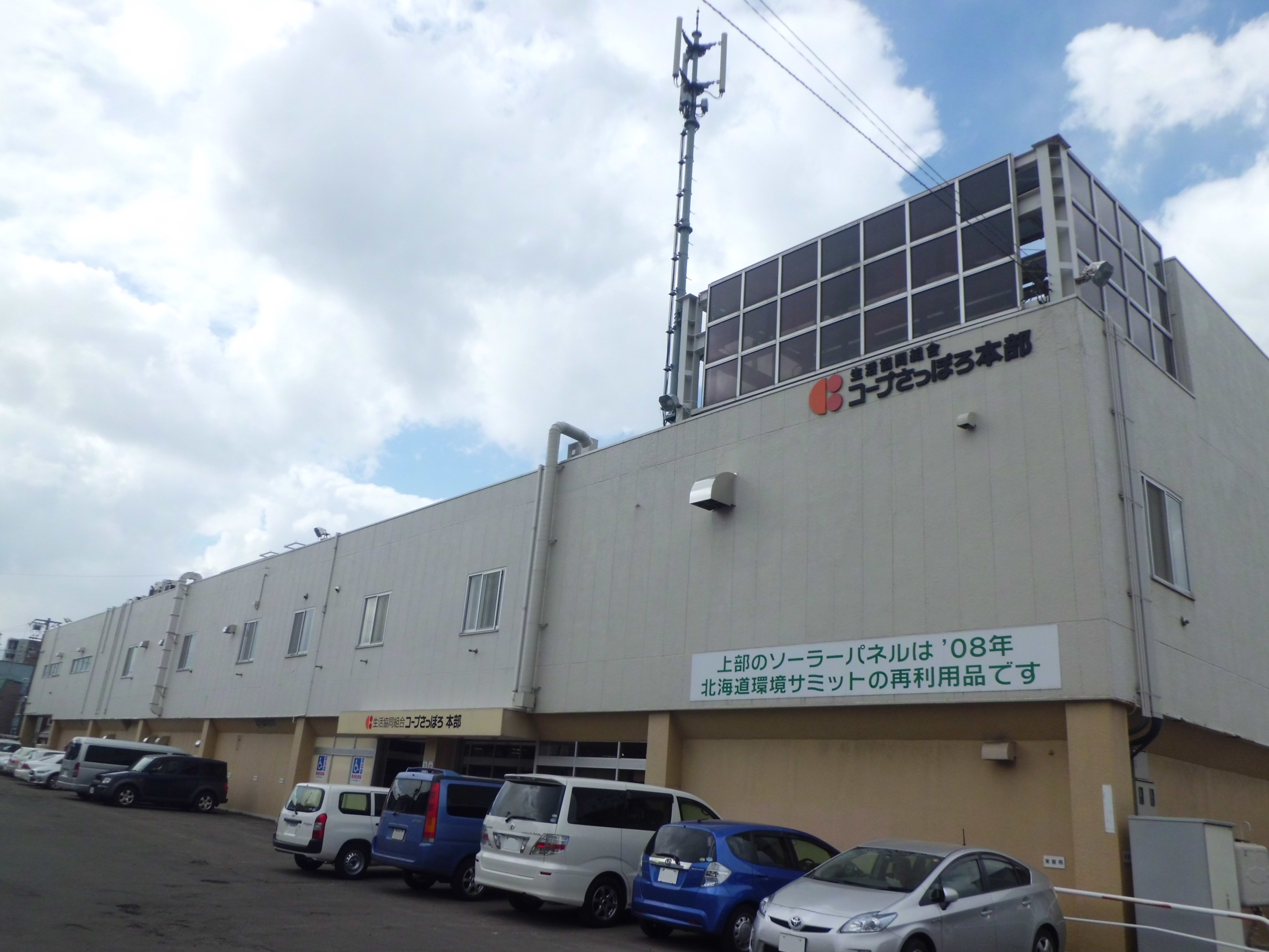 Main office of Co-op Sapporo